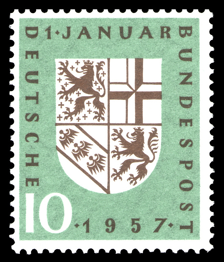 Special stamp, joining of the Saarland into the Federal Republik of Germany in 1957